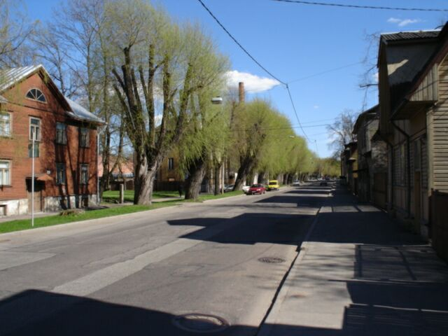 Ristiku street in Pelgulinn, Tallinn, Estonia.